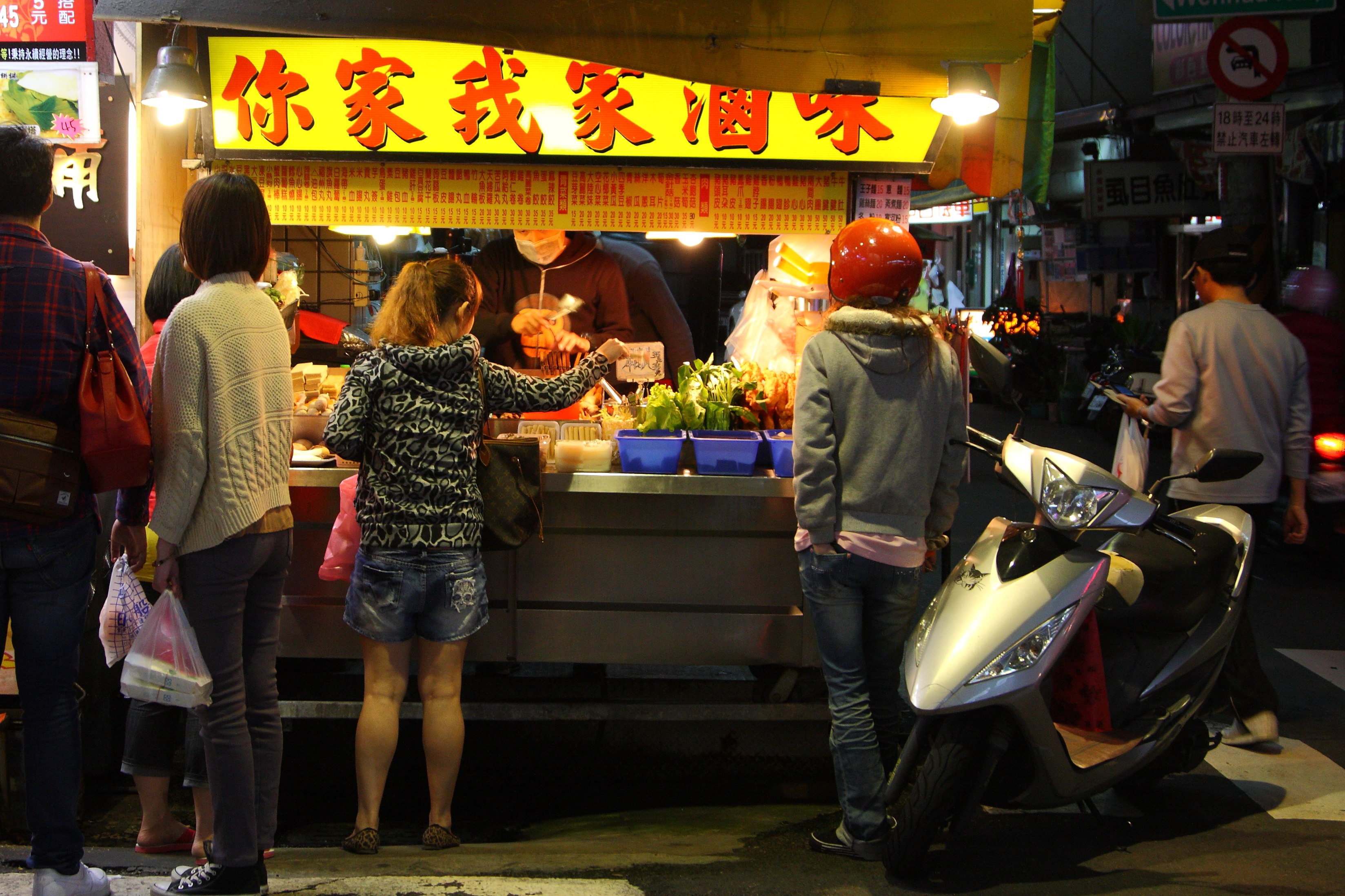 Night market in Taichung